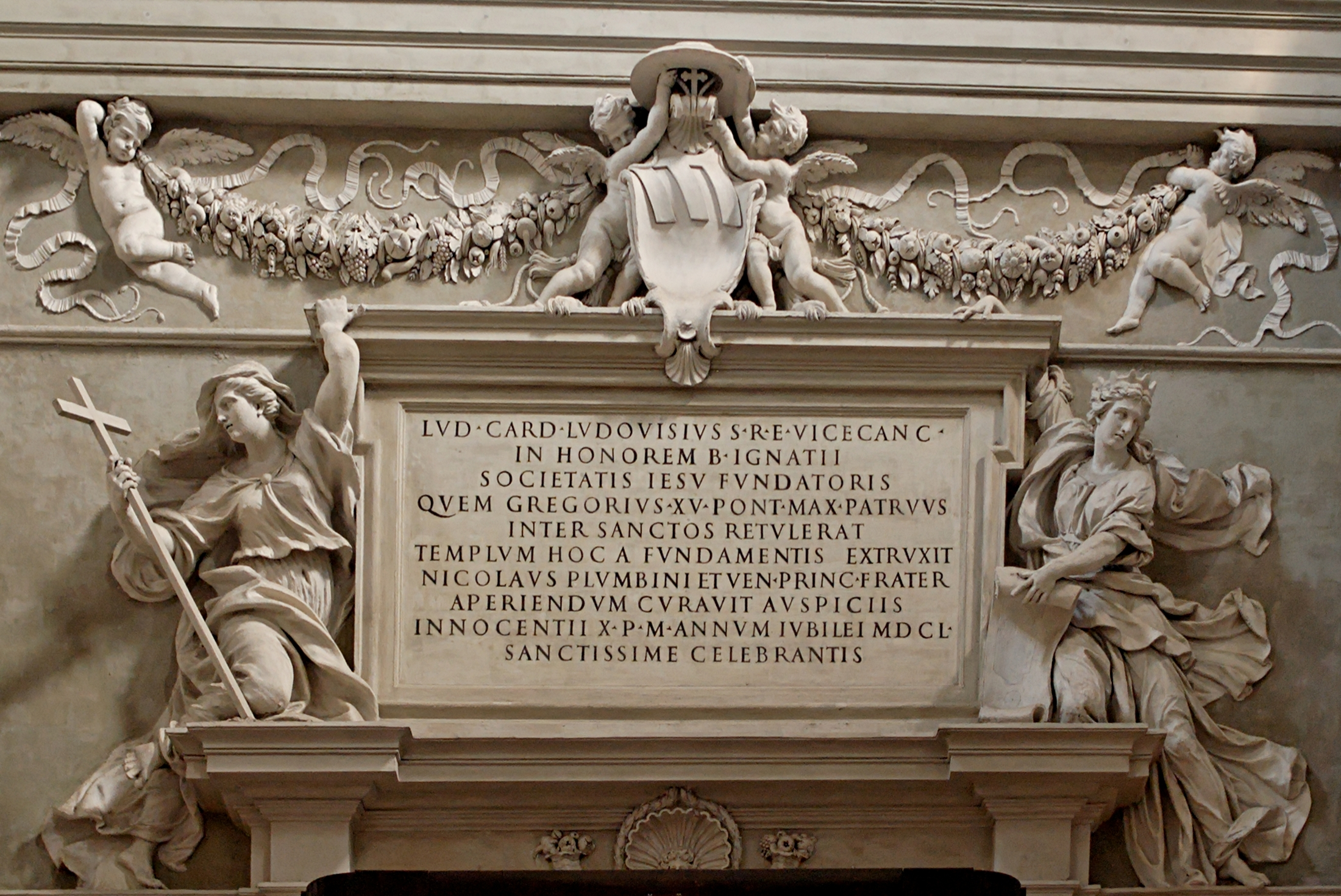 Dedicatory inscription of Sant'Ignazio, Rome, Italy.